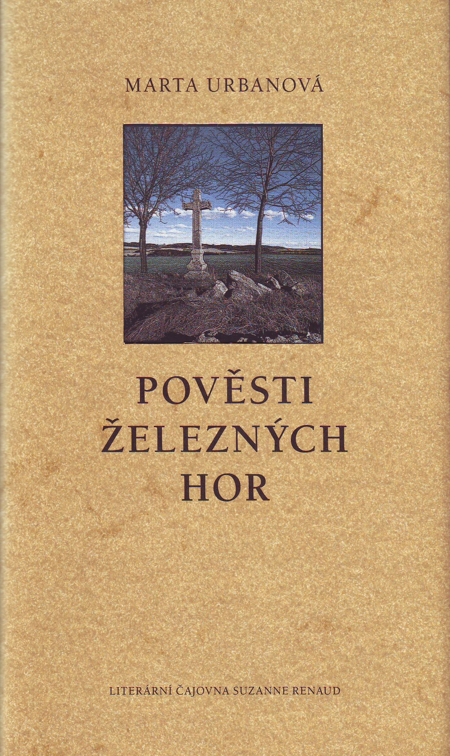 Cover art of a book Pověsti železných hor by Marta Urbanová